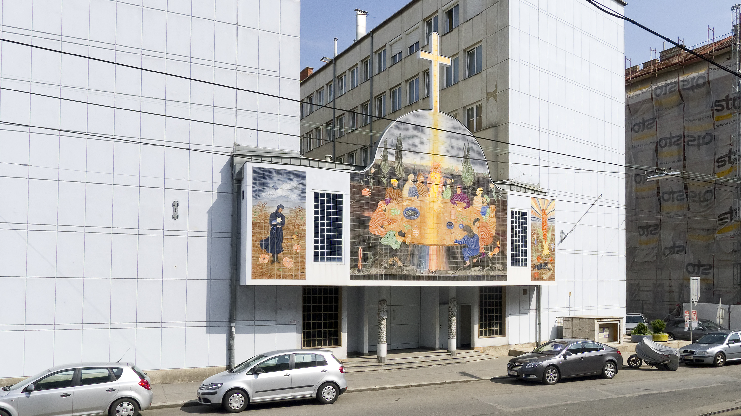 Church Pfarrkirche Am Tabor (Leopoldstadt) in Vienna 2